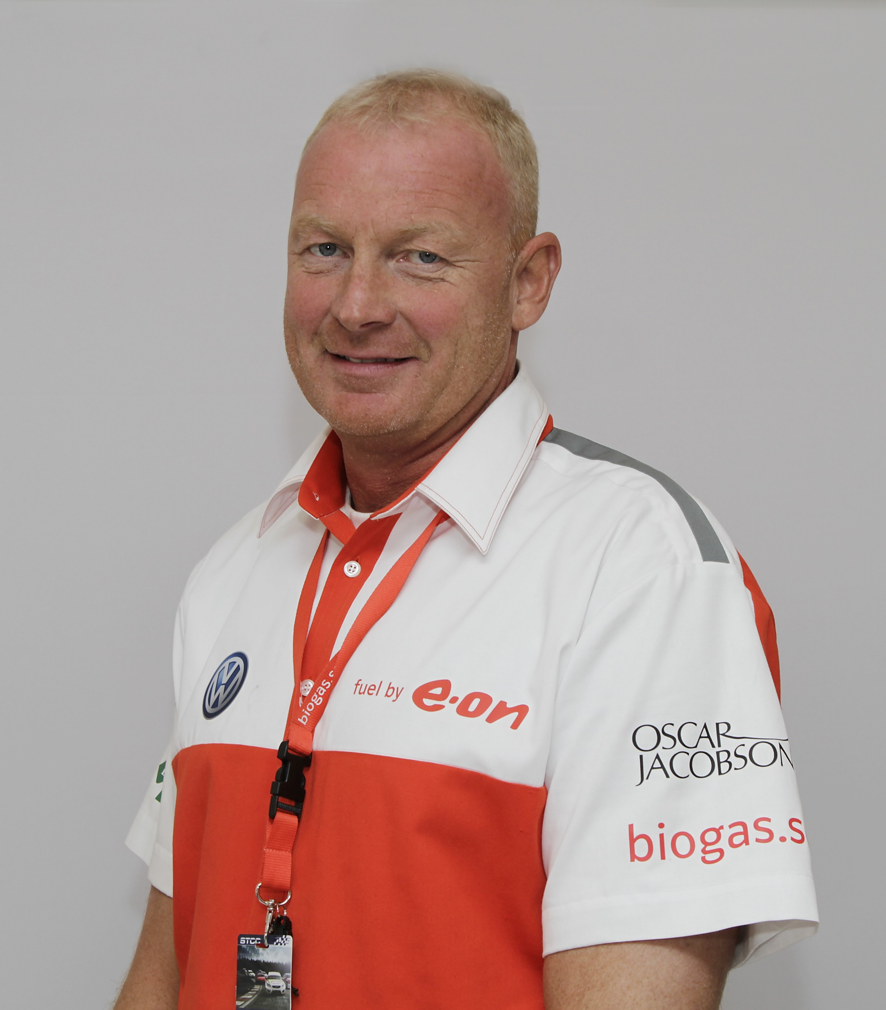 Tommy Kristoffersson, team principal of KMS.